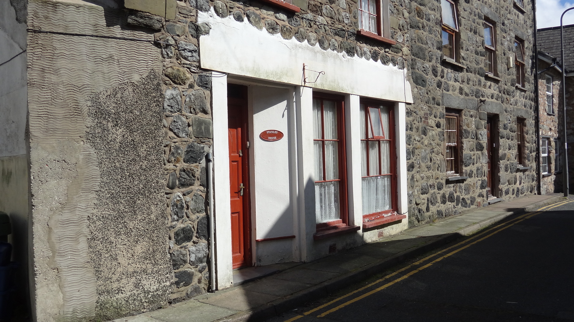 Stanley House, Red Lion St, Tywyn